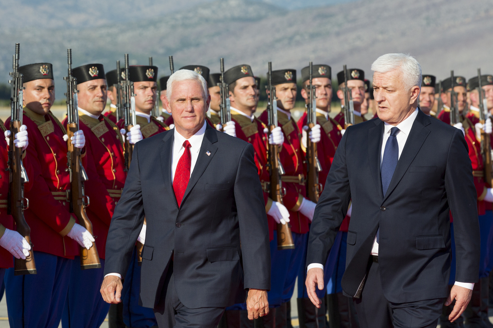 Vice President Mike Pence and Montenegrin Prime Minister Duško Marković, August 1, 2017